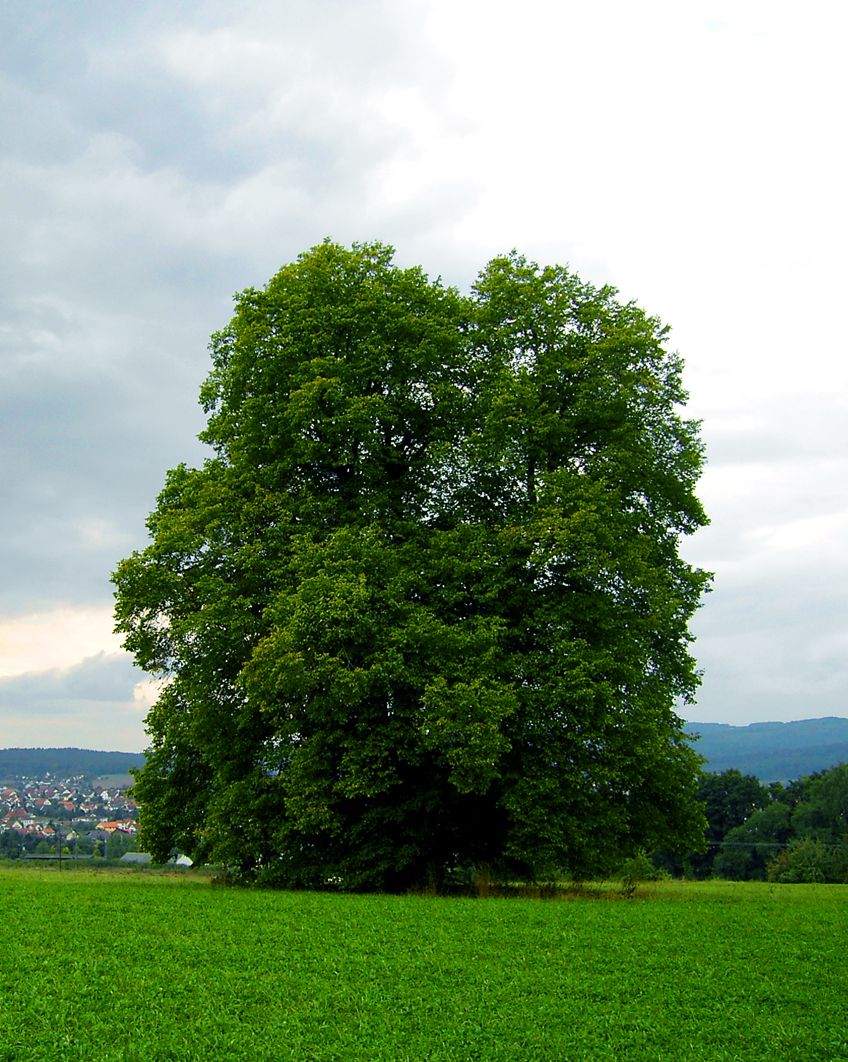 Flieden (Germany) - natural monument-destroit